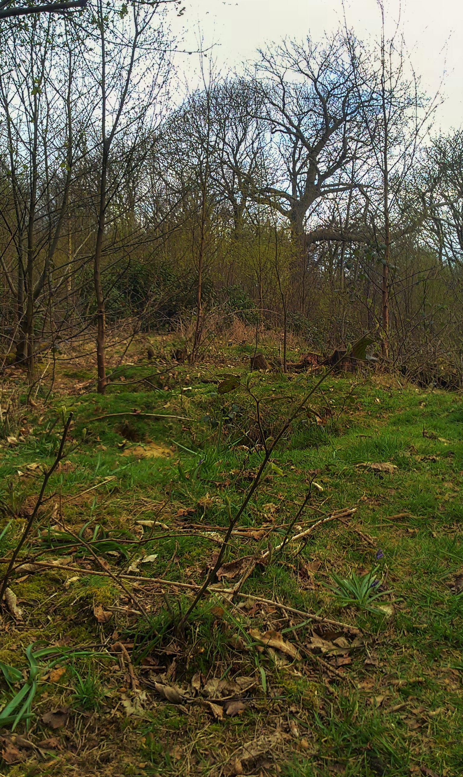 The surface atop Shrub's Wood Long Barrow in Kent.